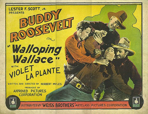 Poster del film Walloping Wallace (1924).